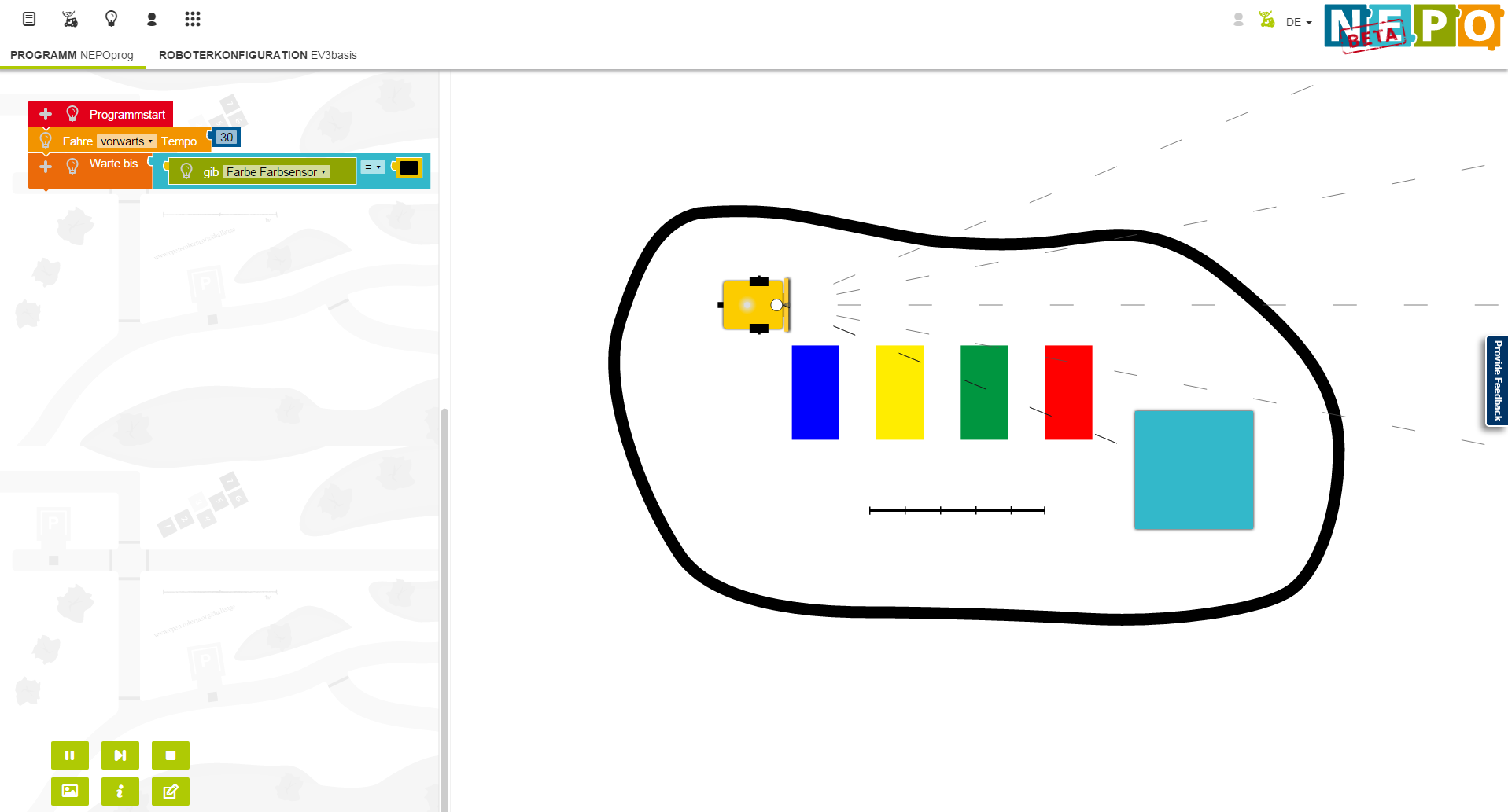 Open Roberta 2D Simulation of a wheeled robot model